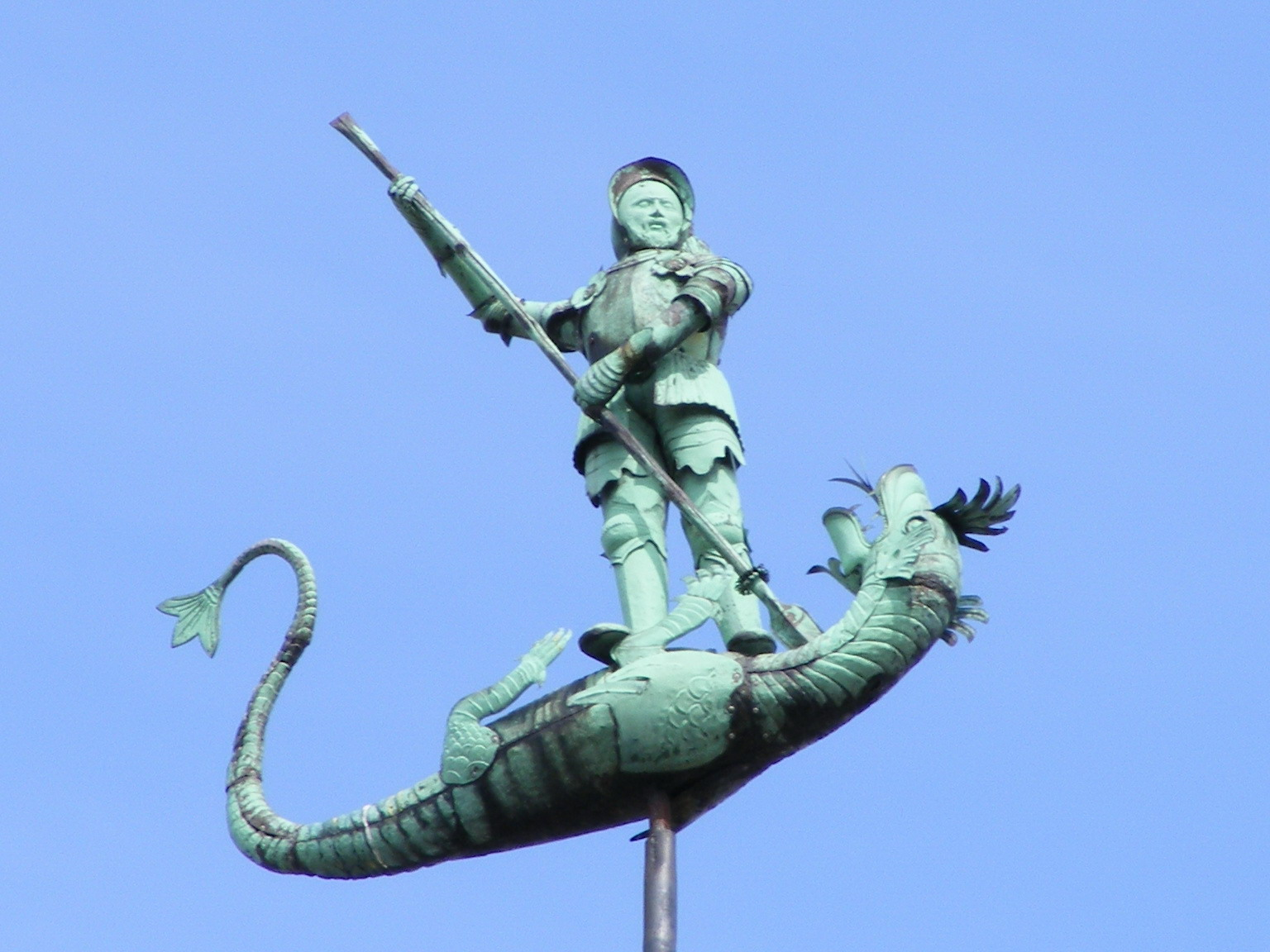 Saint Jerry fighting with dragon